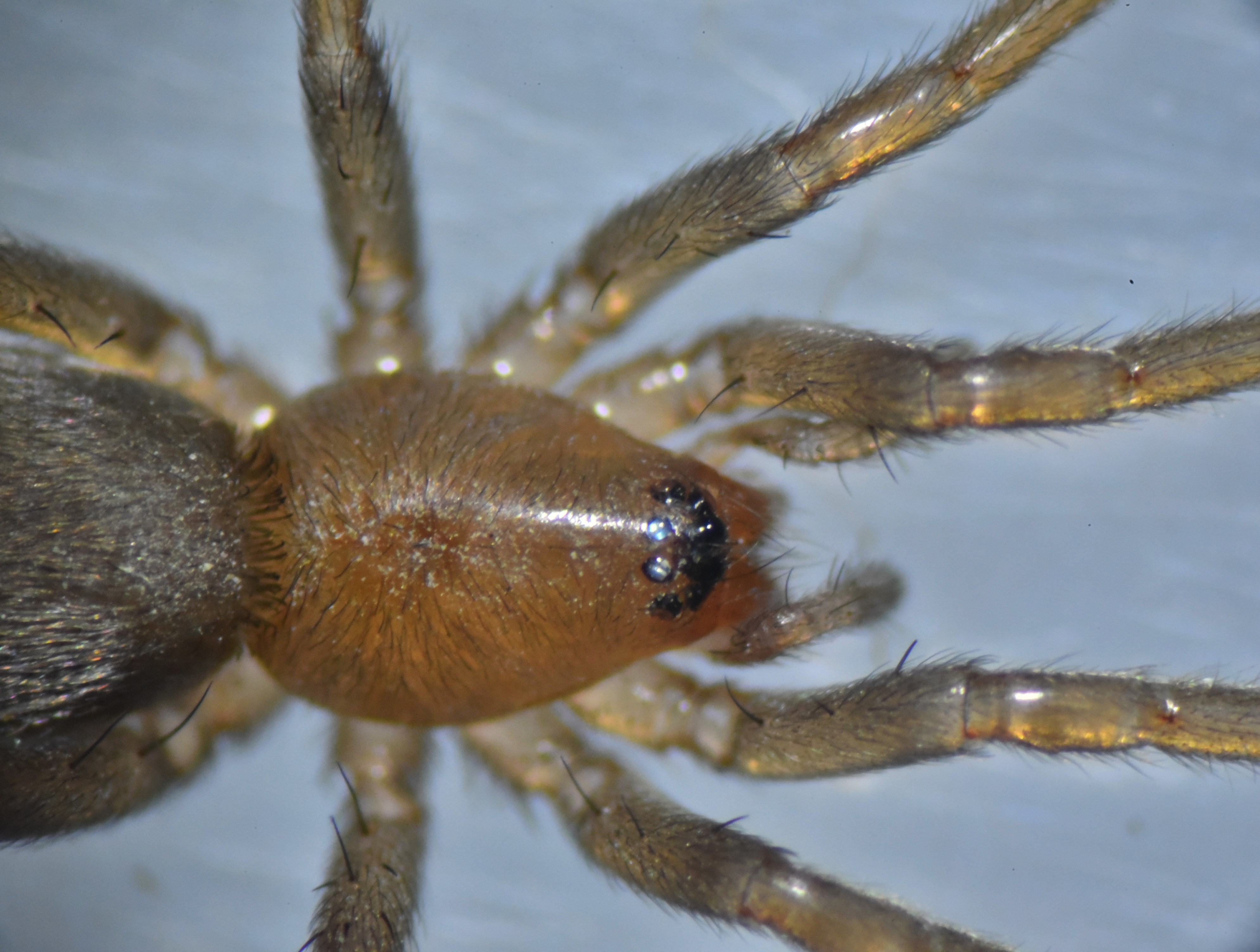 Prosoma of a female Scotophaeus blackwalli.